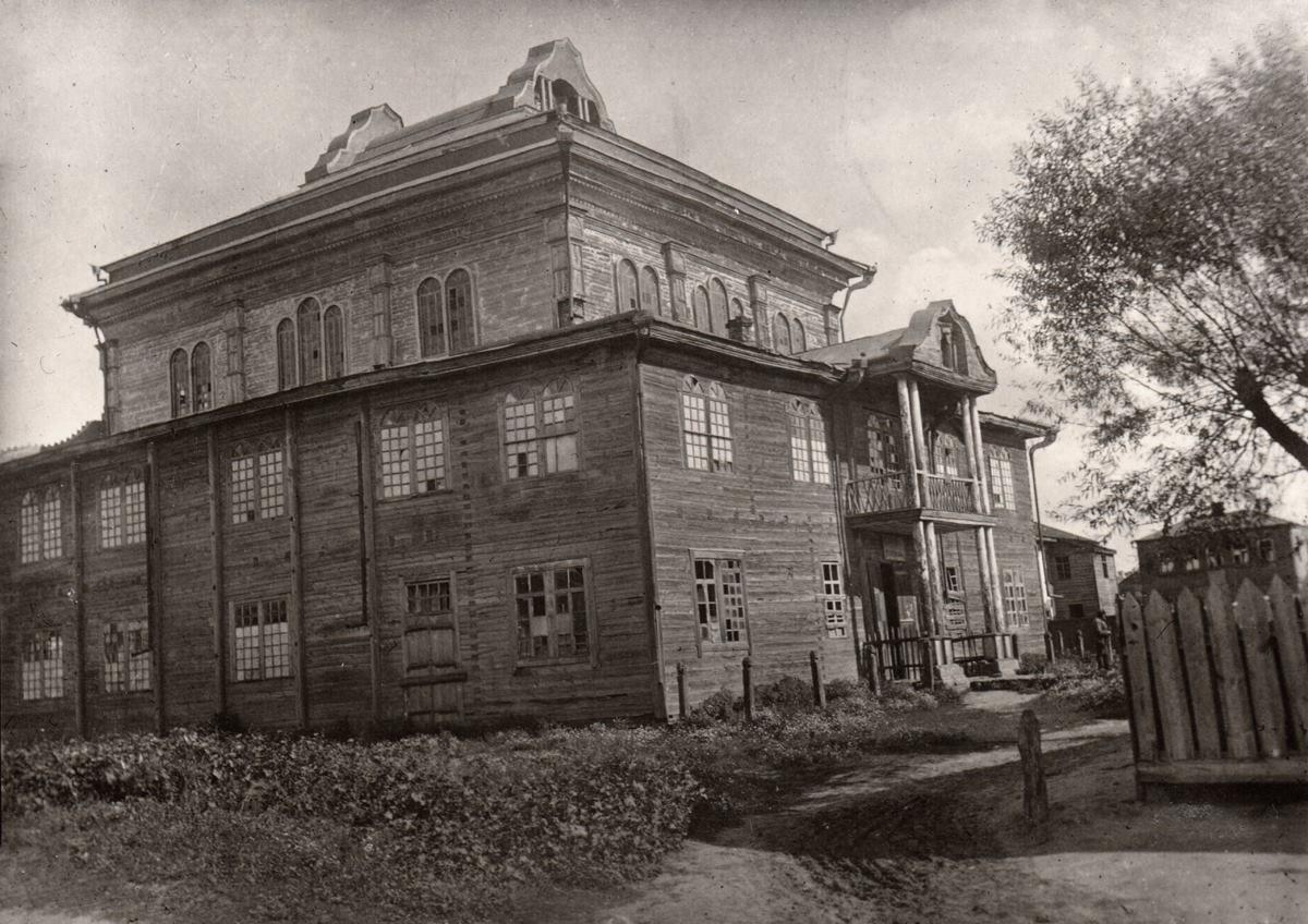 Wooden synagogue in Chernobyl.